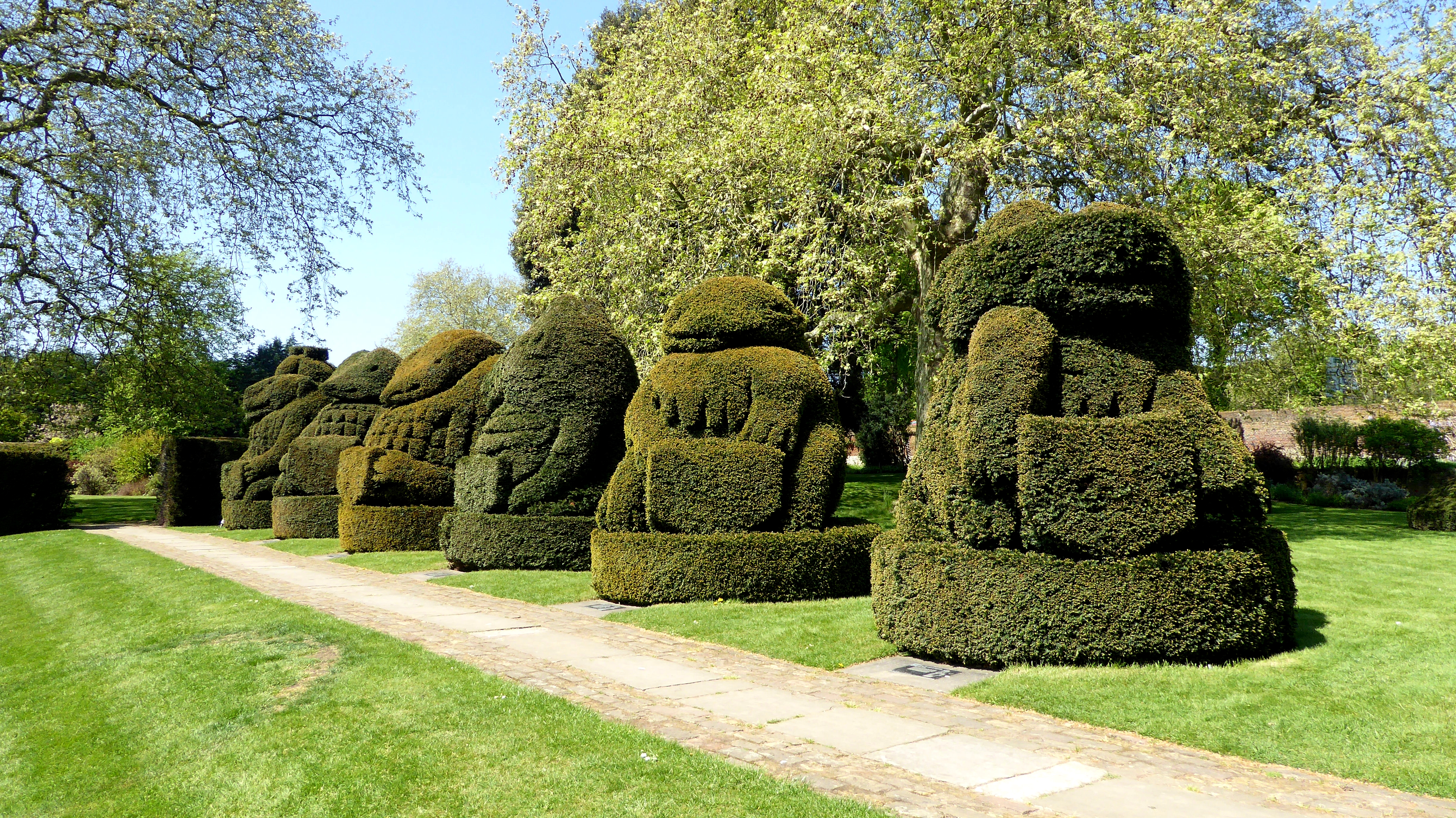 The topiary animals at Hall Place, London Borough of Bexley.